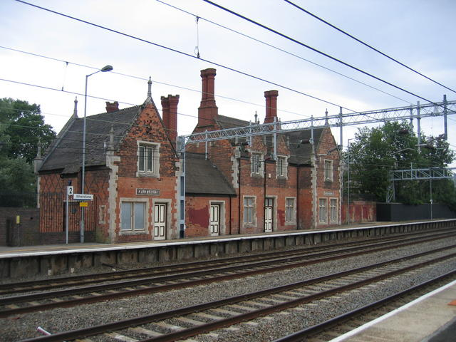 Atherstone railway station.